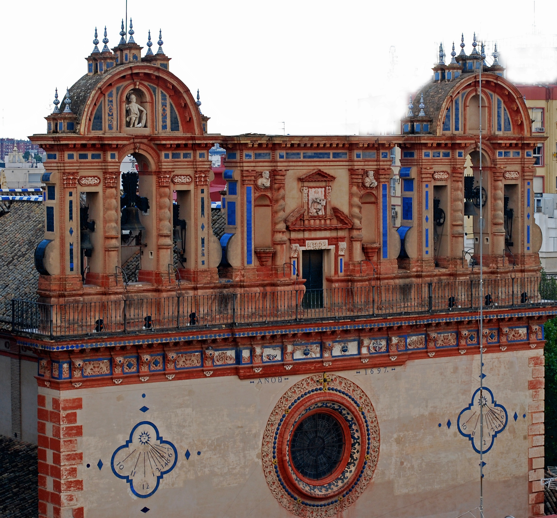 Church of Magdalena, Seville